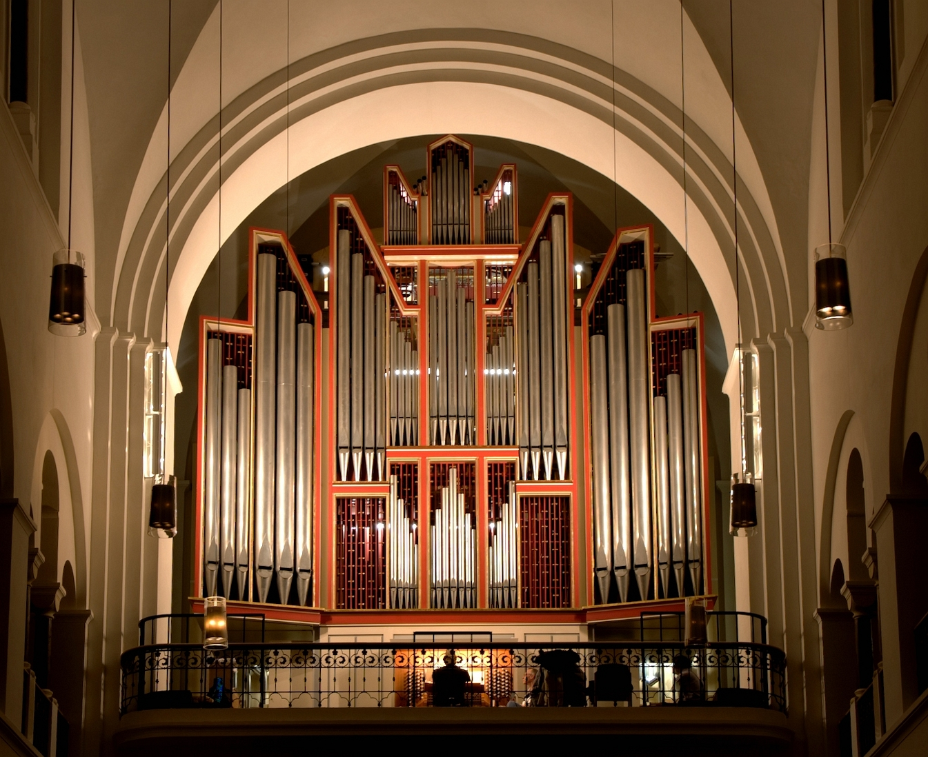 Beckerath Organ in the Cathedral of Hamburg (Neuer Mariendom)